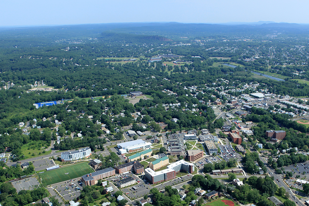 University of New Haven campus and surroundings, June 2011